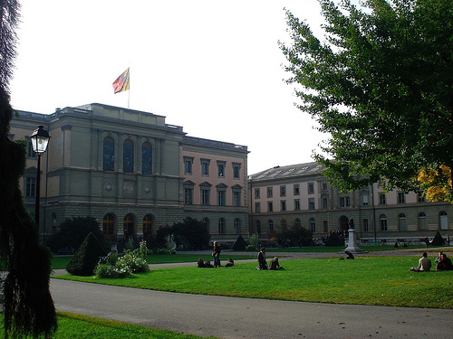 Uni Bastions CH-1205 Geneva, Switzerland